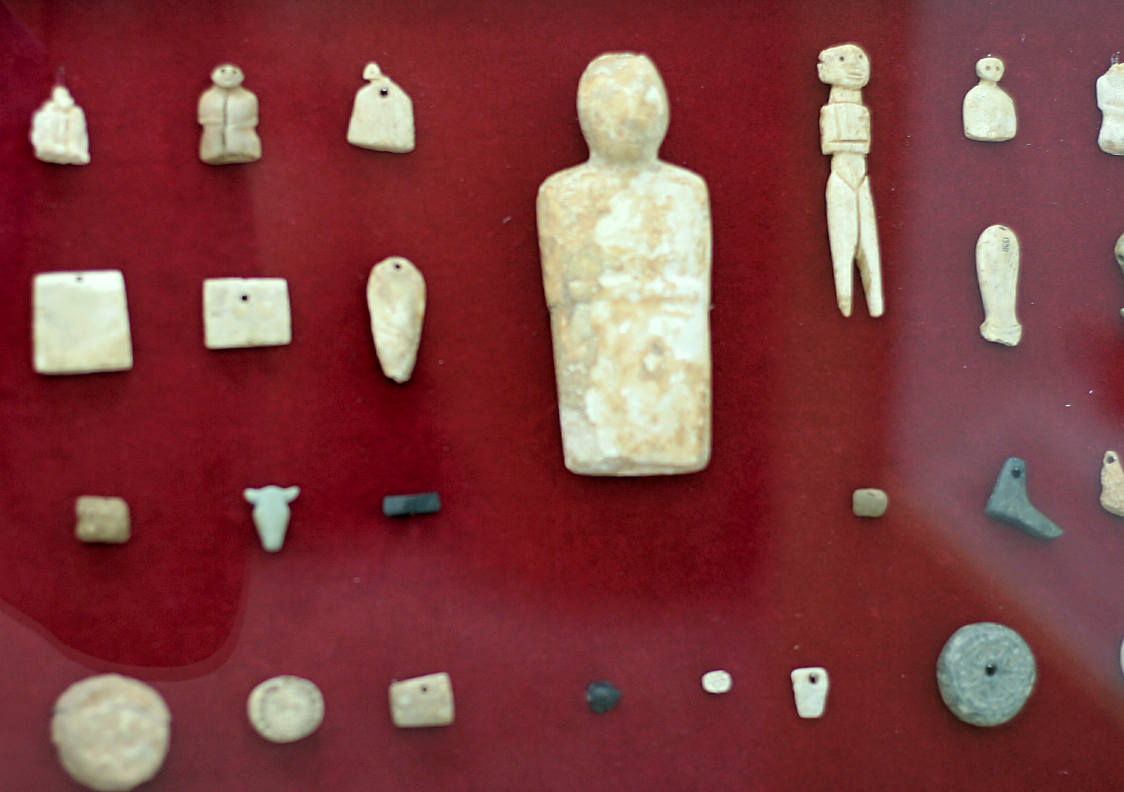 Stylized Minoan small figurines. Marble, ivory. Agios Charalambos cave on Lasith, 1800-1050 (?) BC. Archaeological Museum of Agios Nikolaos.